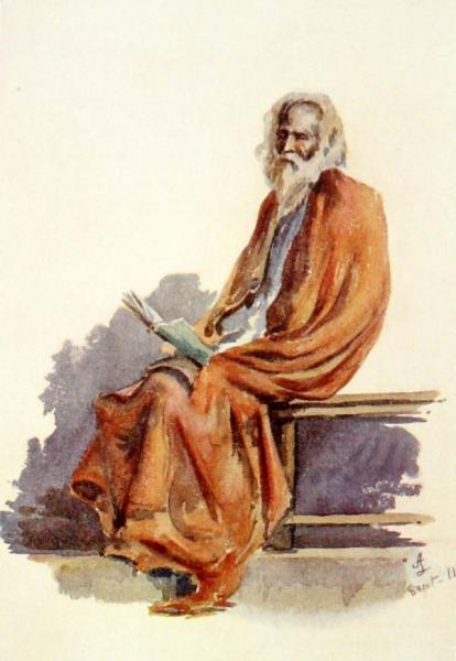 "A learned ascetic"* Source: ebay, July 2006